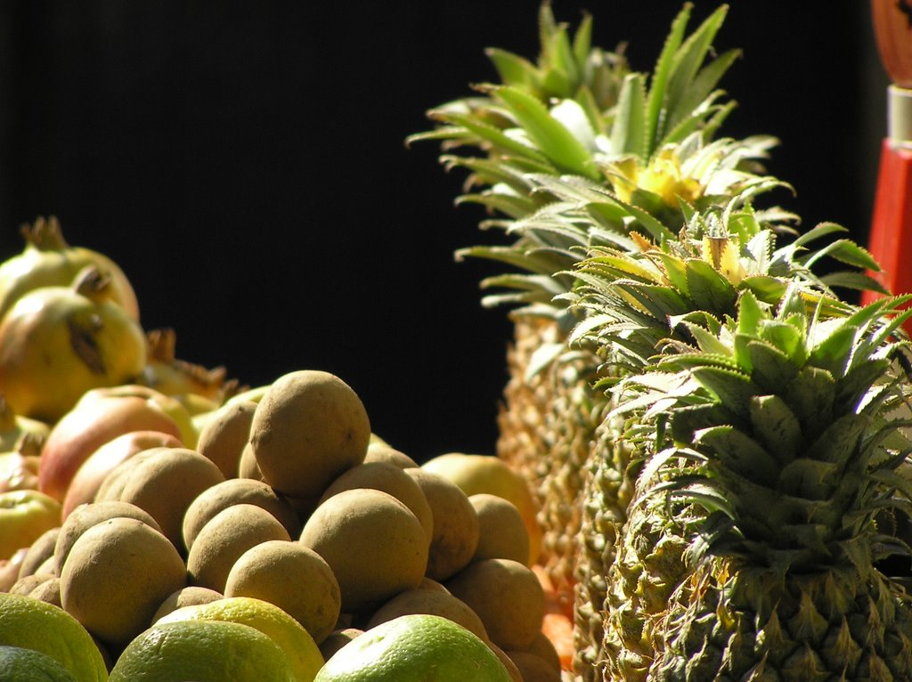 An array of Tropical Fruits at University of Hyderabad, India.